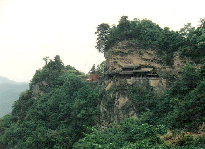 Wu Tang Cliffside Temple